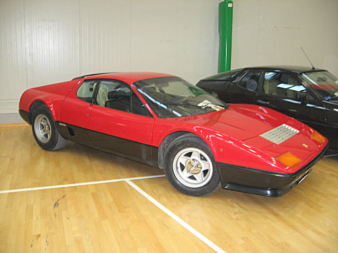 Subject:Ferrari 512 BB (carburettors) Author:Luc106 Date:March 15th, 2007 Event:Old Timer Show 2008 Place/Country: Forlì, Italy I release all rights in the public domain.